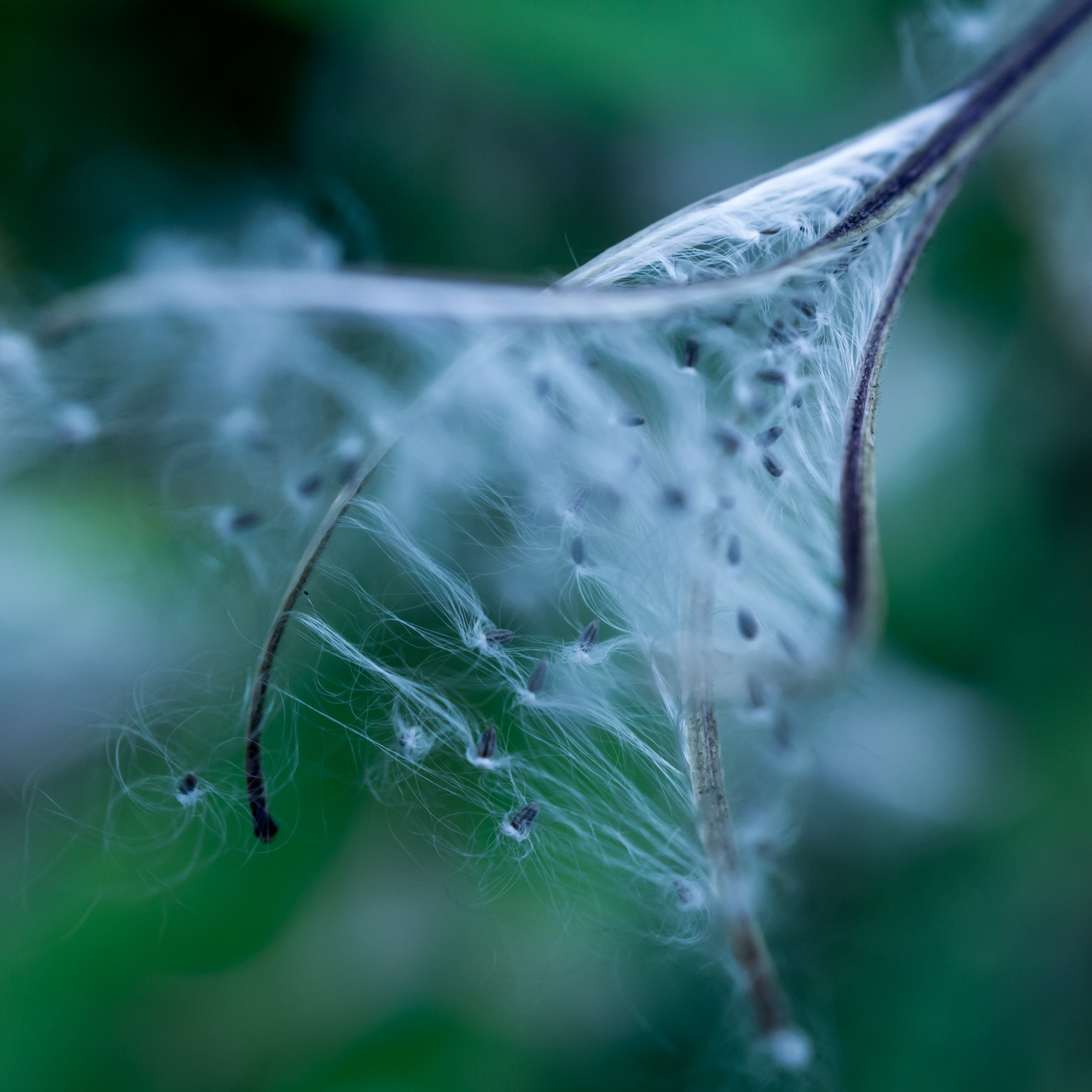 The seed head of a Great Willowherb (Epilobium hirsutum).